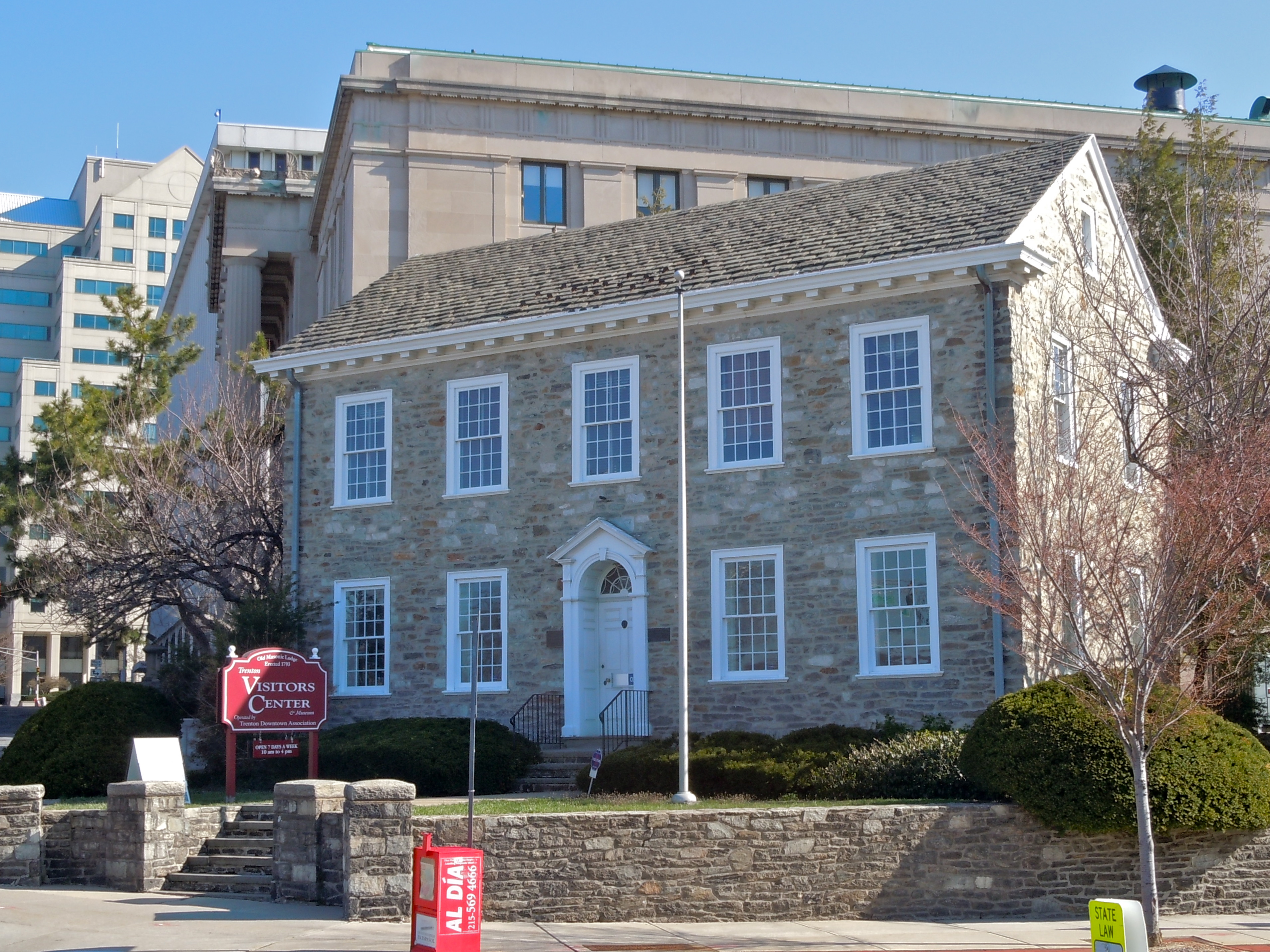 Old Trenton Masonic Lodge, now used as a State tourist information center near the state house in Trenton, right next to the "new" 20th century Mason building. Erected 1793. Information center was supposed to open at 10 am, but at 10:04 was still not open! Part of State House District on the August 27, 1976. The historic district is roughly bounded by Capitol Plaza, Willow, State and Lafayette Sts., in Trenton, New Jersey and includes the Hessian Barracks right down the street.